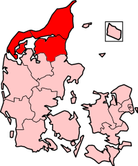 The dark-red area shows the position of Nordjylland in Denmark